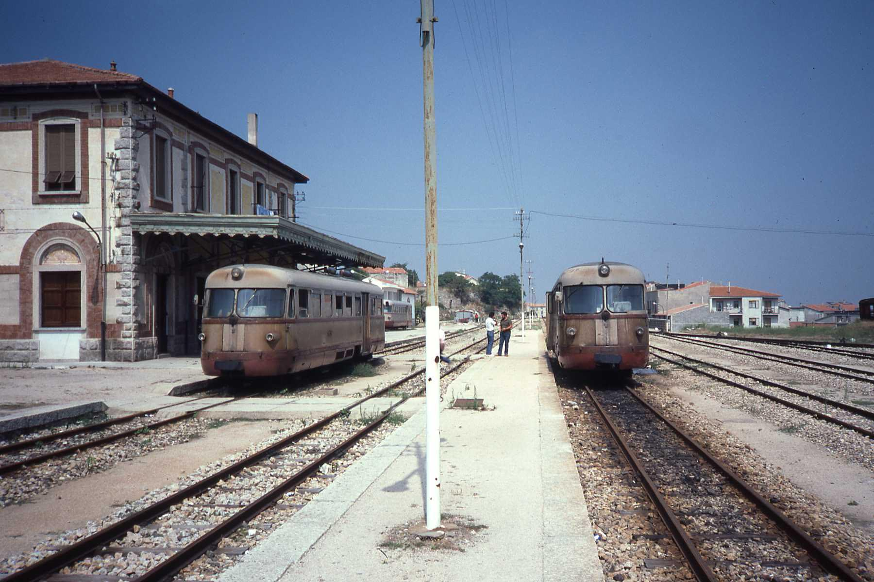 Two railcars meet at Tempio station on the Sassari - Palau smalltrack FdS line.